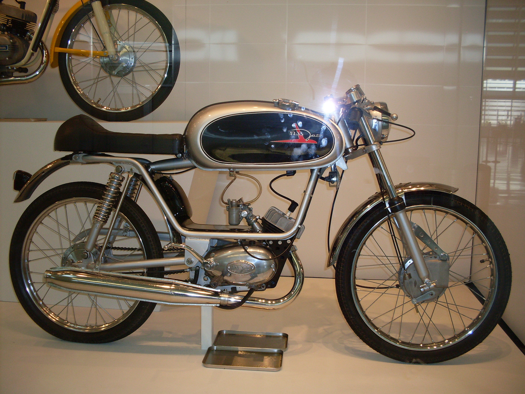 1969 Italjet Mustang Veloce